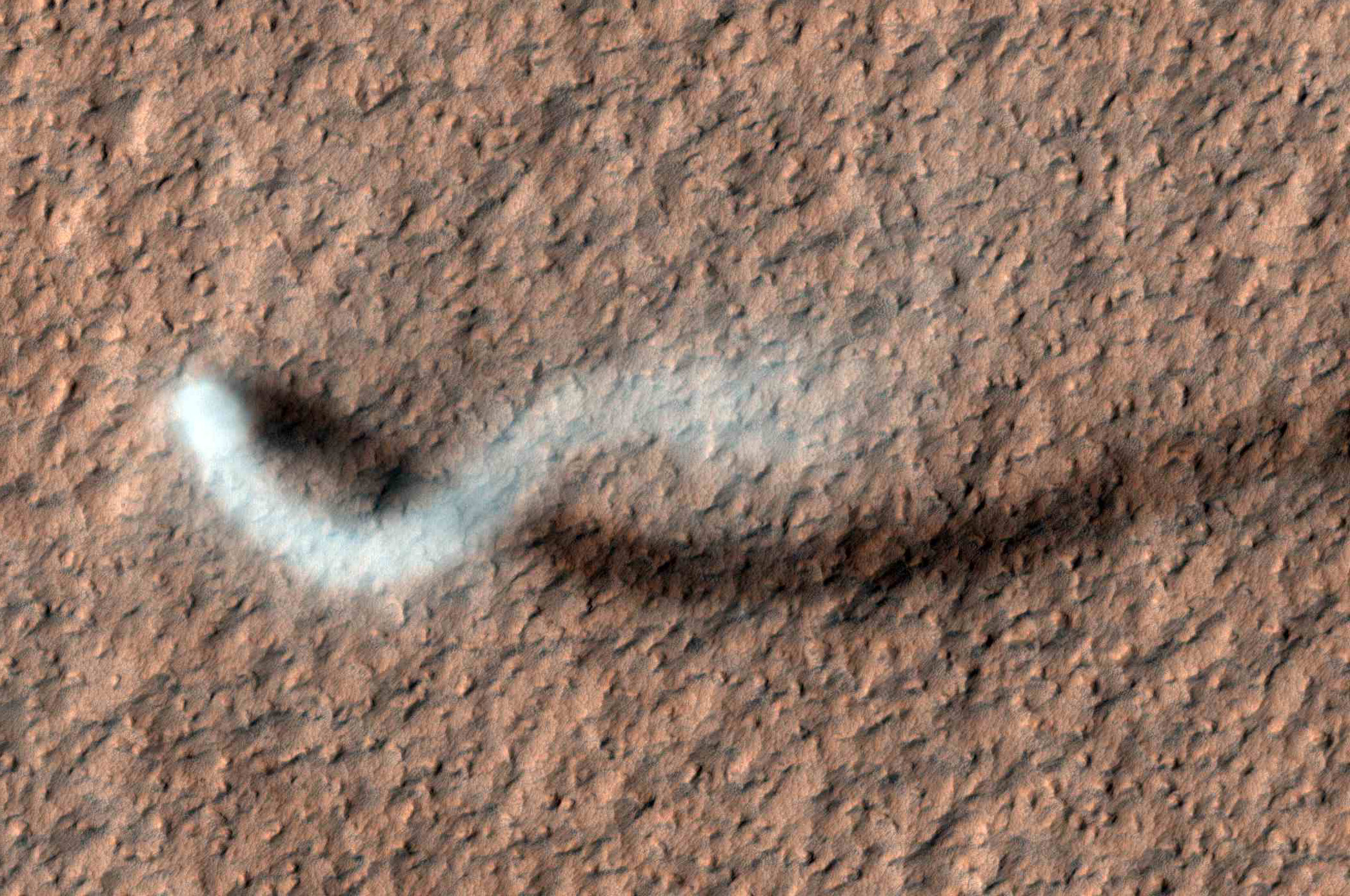 A towering dust devil casts a serpentine shadow over the Martian surface in this image acquired by the High Resolution Imaging Science Experiment (HiRISE) camera on NASA's Mars Reconnaissance Orbiter. The devil is 800m in height and 30m wide.